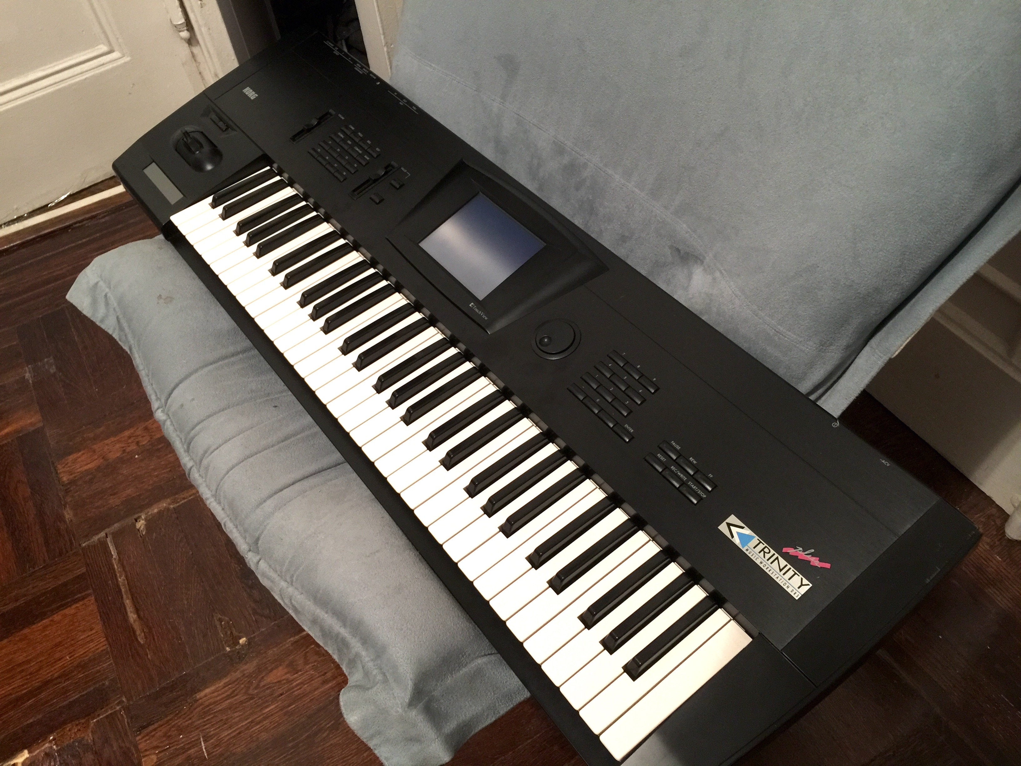 The rare black version of the Trinity was only produced for the Japanese market. These were produced in very small numbers, yet the exact number produced is not known.